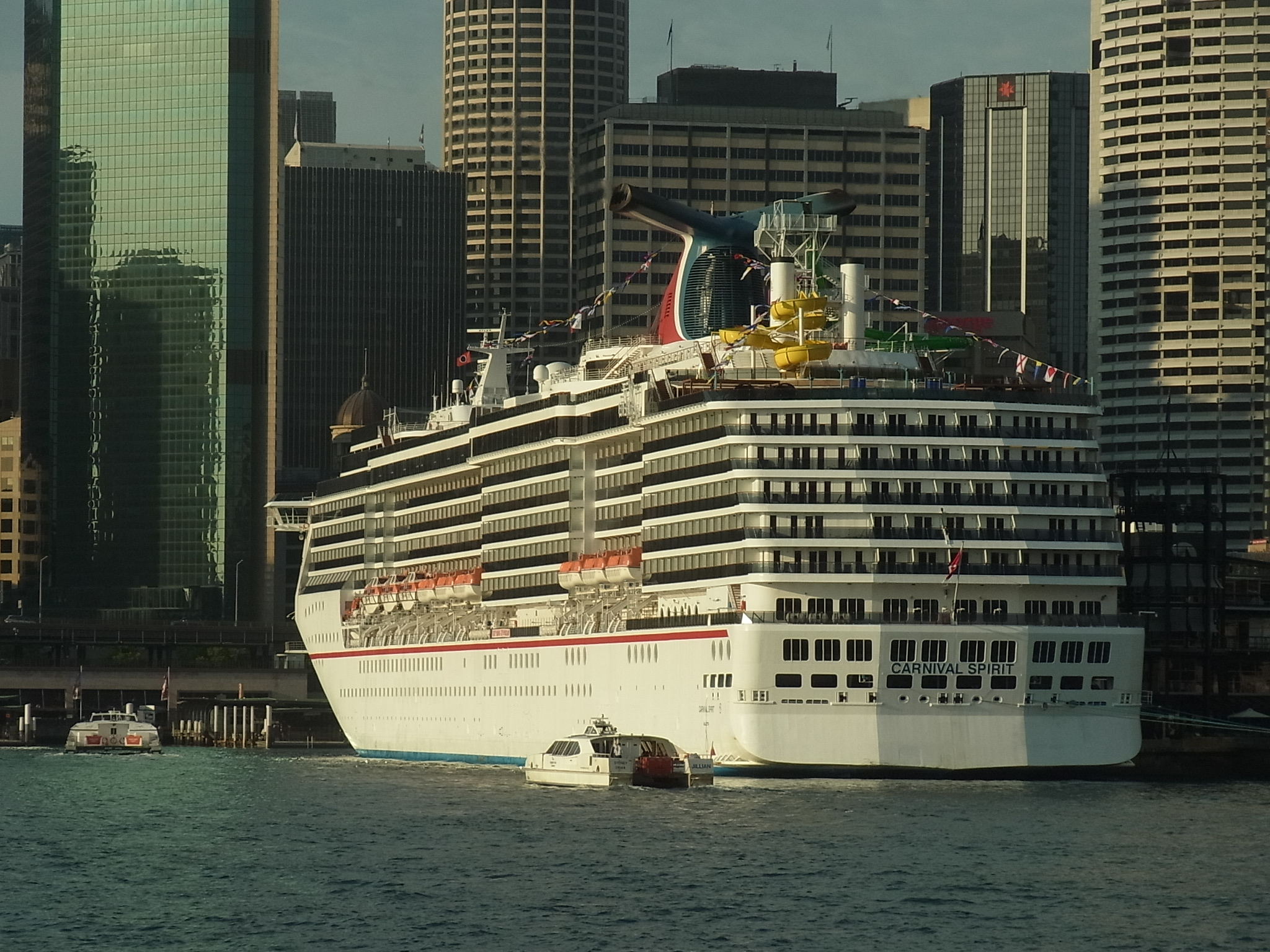 Cruise ship in Sydney Cove Australia in 2013